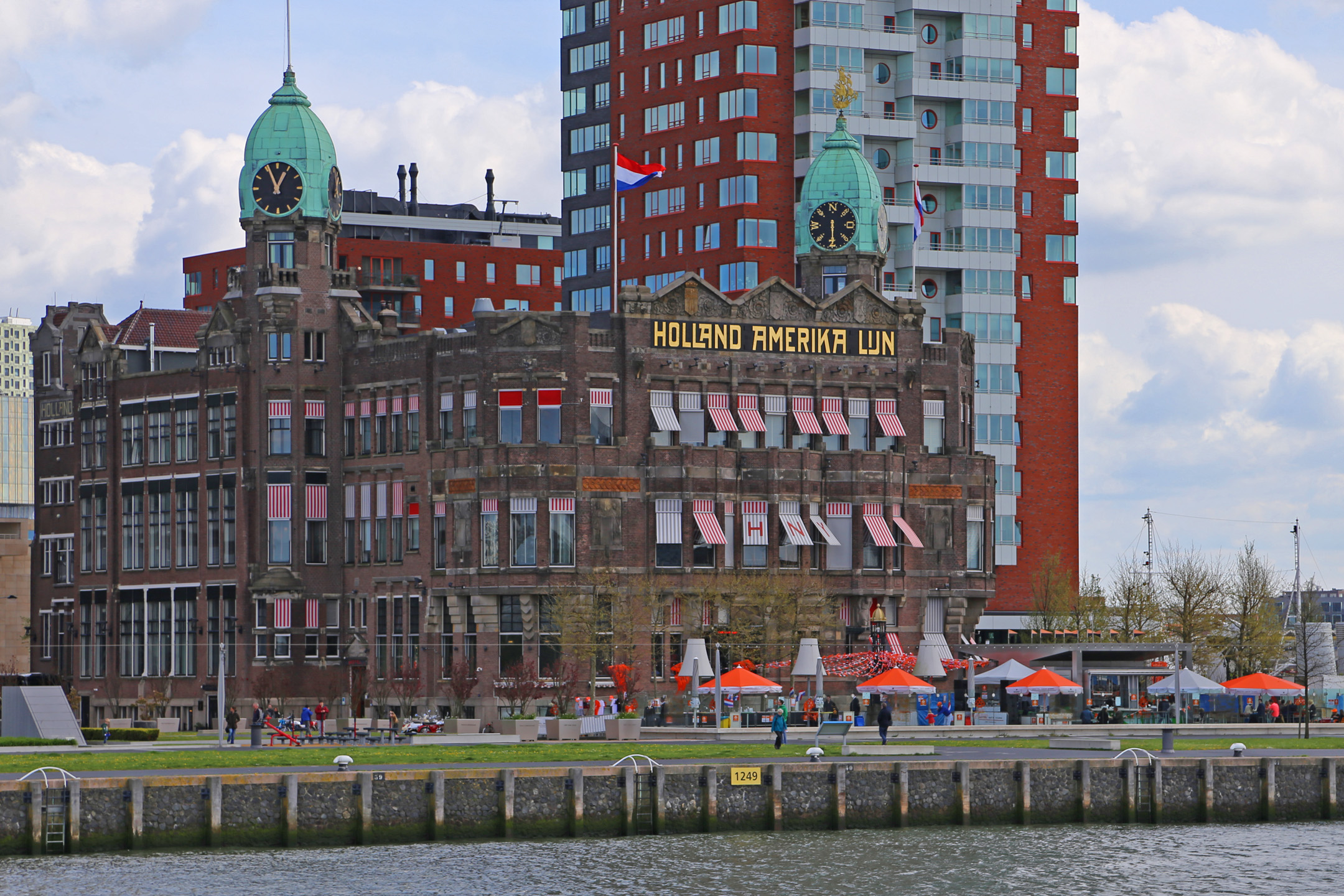 Rotterdam: Hotel New York - former seat of the shipping company for transatlantic passenger service Holland - America (HAL).